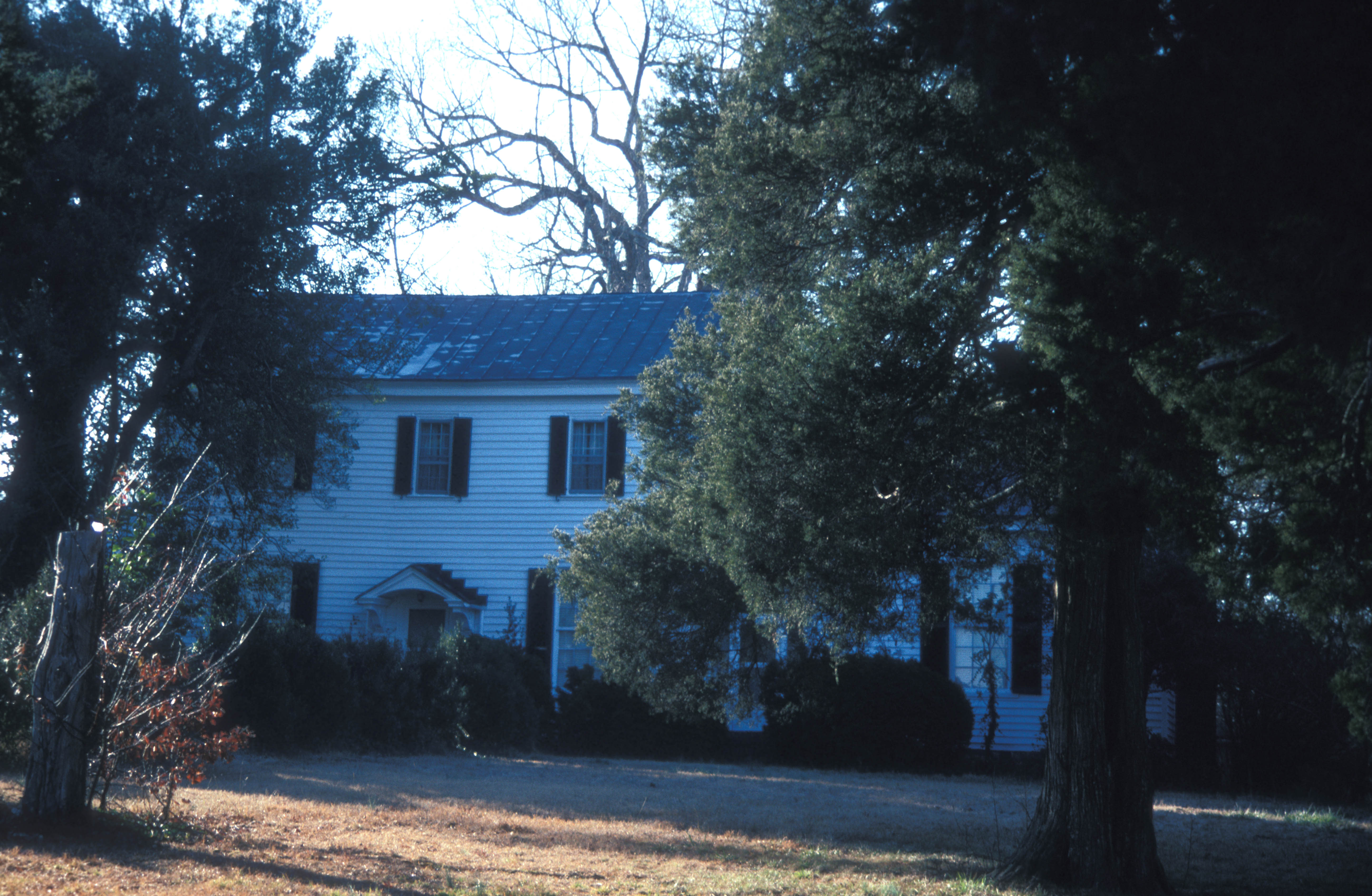 1802 FRAME FEDERAL HOME OF BEDFORD BROWN, U.S. SENATOR OPPOSED TO SECESSION; LOCATED IN LOCUST HILL